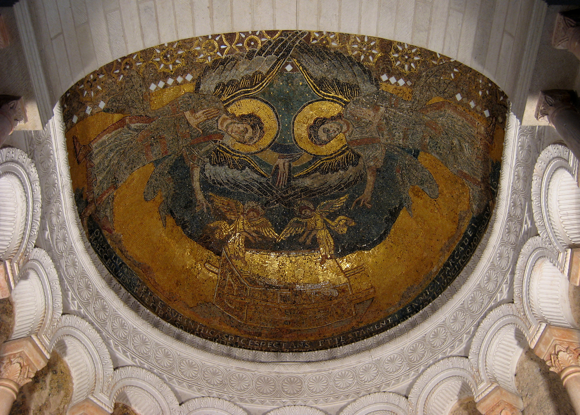 Basilica Germigny-Des-Prés - the central apse of the east contains a rich and complex mosaic showing two cherubin above the Ark of the Covenant.